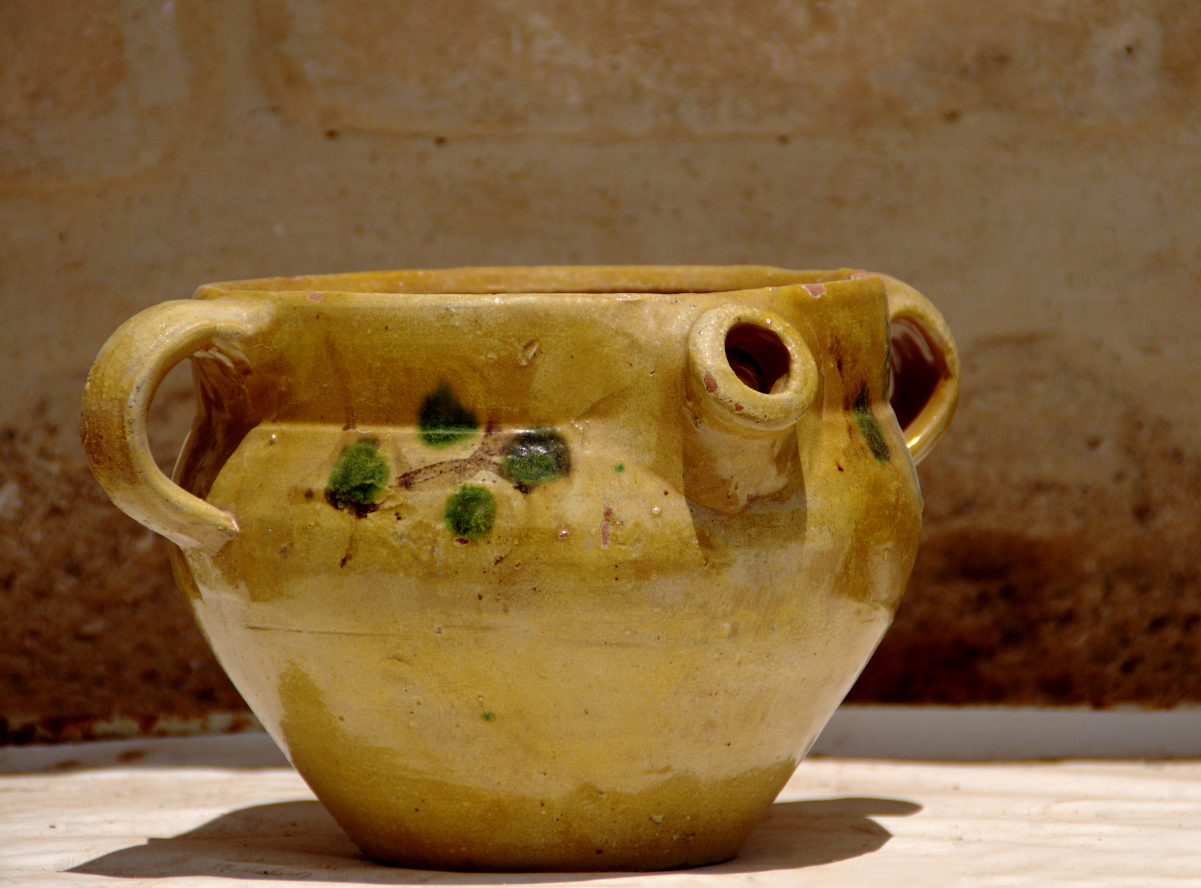 Pottery to contain olive oil exposed in Lamta Ribat, Tunisia